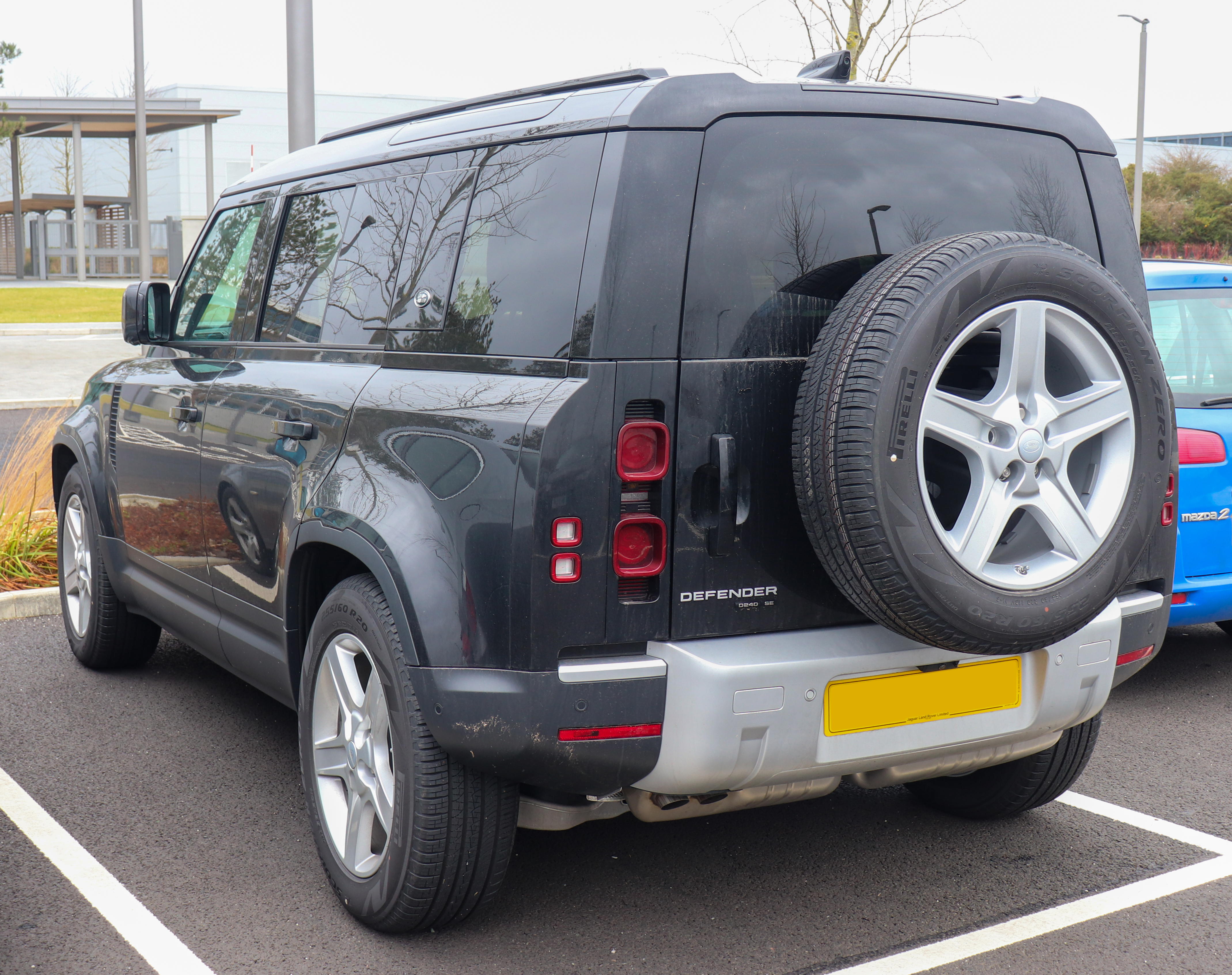 2020 Land Rover Defender D240 SE Automatic 2.0 Rear Taken at the British Motor Museum, Gaydon